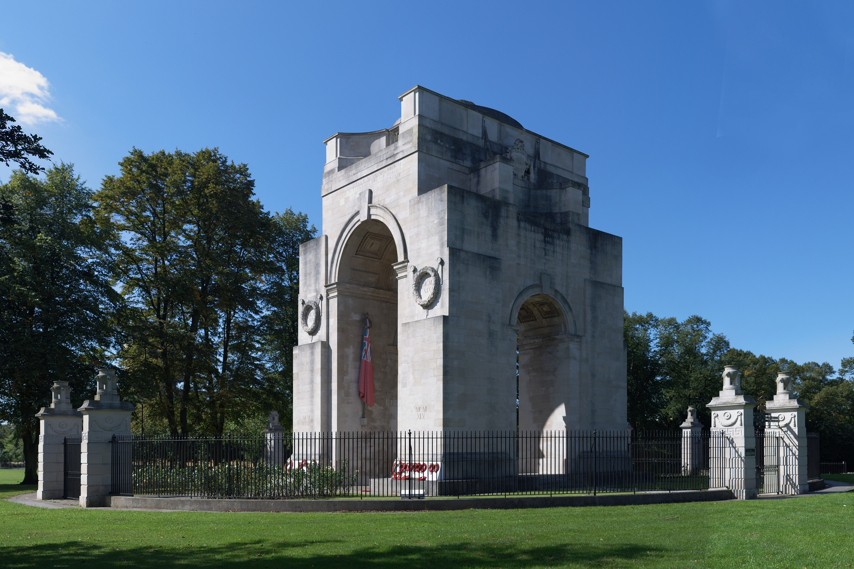 The War Memorial, Victoria Park. A Grade I listed building, designed by Edwin Lutyens and erected in 1923